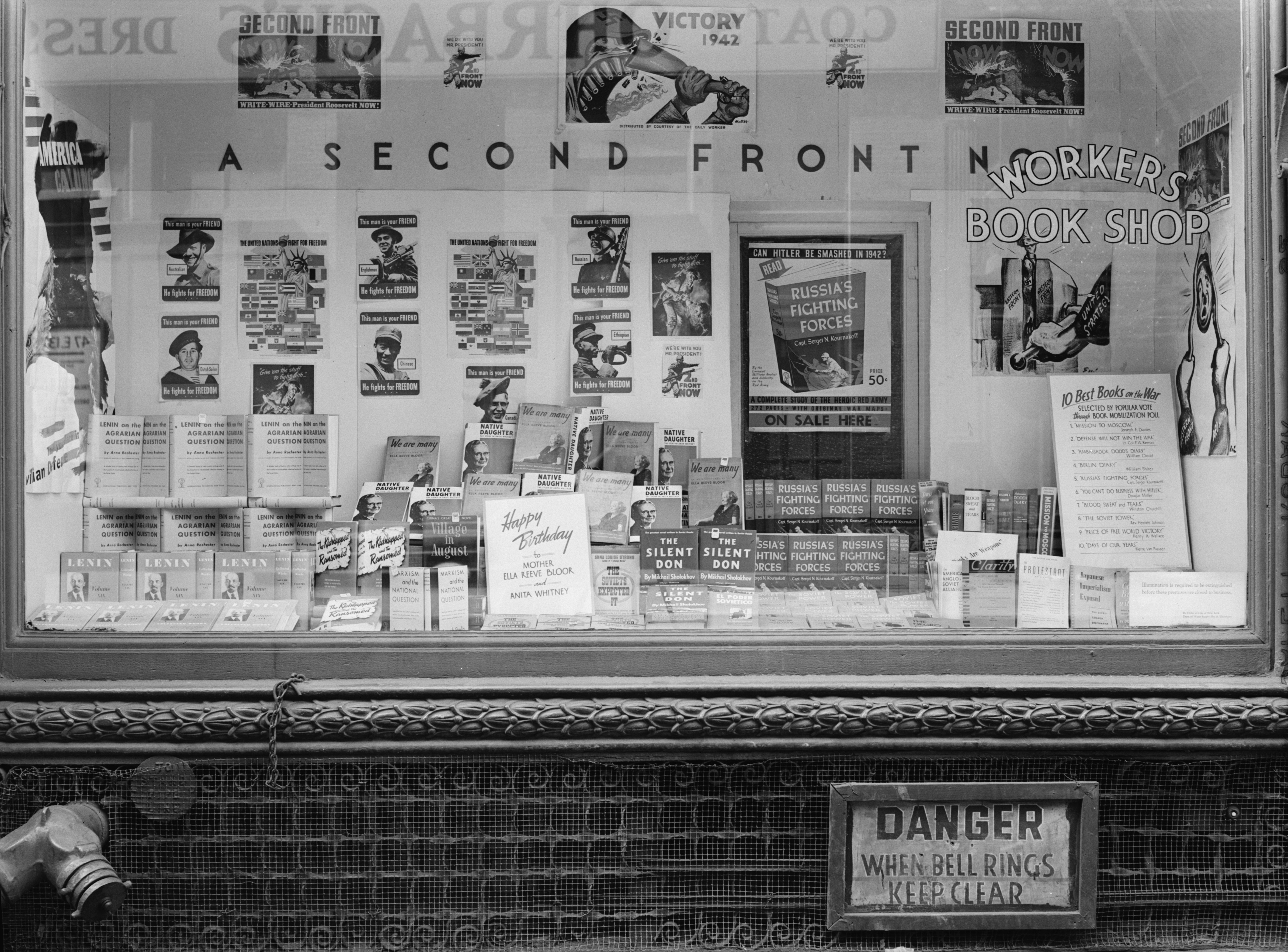 The Communist Party USA's Workers' Bookshop, at its headquarters on 13th Street, between University Place and Broadway, New York City. Posters in the window advocate for a U.S. invasion of Nazi-occupied Europe, to open a "second front".